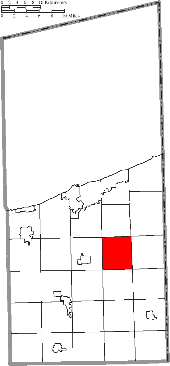 Map of the municipal and township boundaries of Ashtabula County, Ohio, United States, as of the 2000 census, with the location of Denmark Township highlighted. Township borders are shown only in unincorporated areas in order to differentiate incorporated and unincorporated areas more clearly.